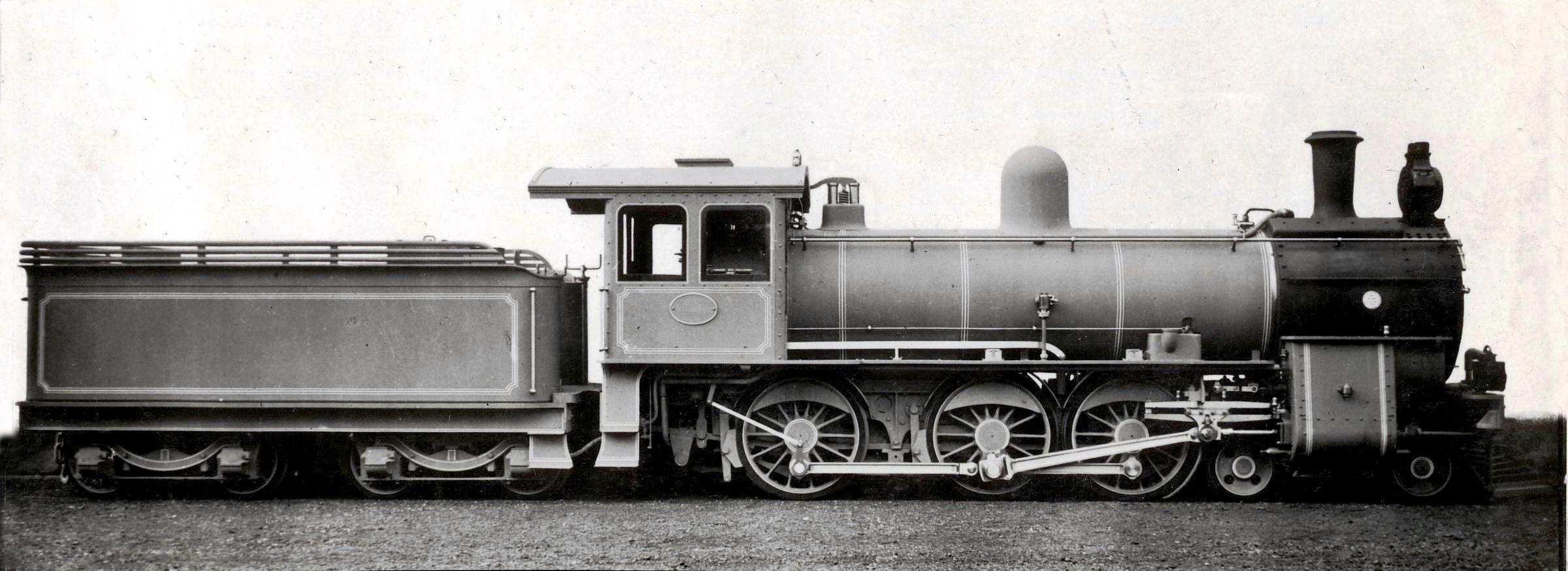 Ex Cape Government Railways Class 6 (4-6-0) South African Railways Class 6L (4-6-0)